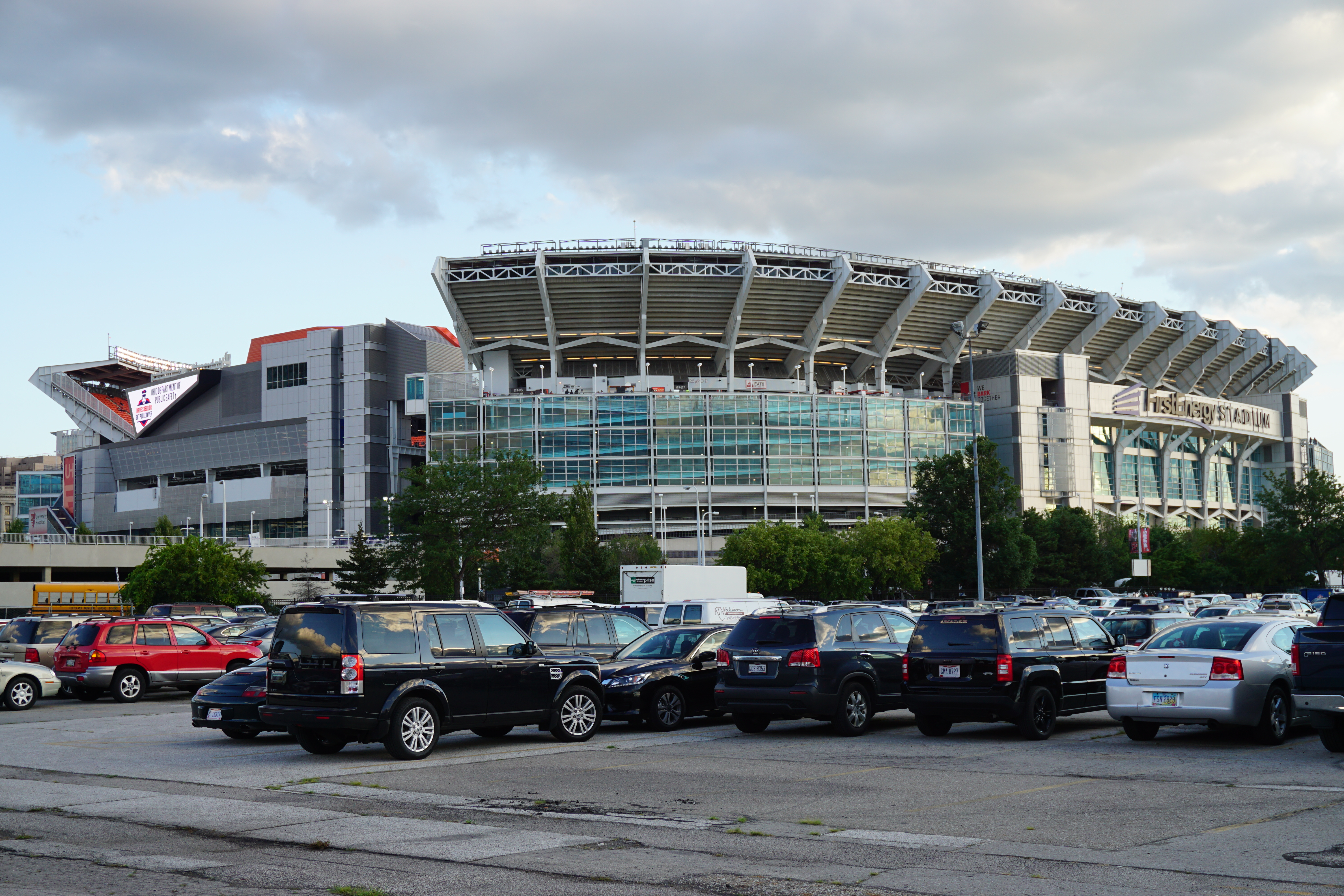 FirstEnergy Stadium in Cleveland, Ohio (United States).